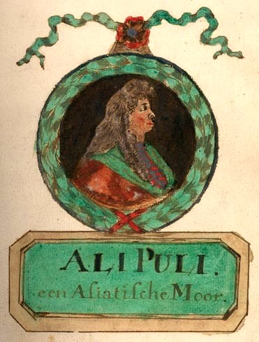 Portrait of Ali Puli 'Ali Puli een asiatische Moor' by Burghard de Groot. (1735)